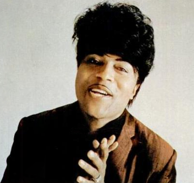 Trade ad for Little Richard's single "It's A Poor Dog That Won't Wag His Own Tail".To better adapt it to his respective Wikipedia article, the ad was cropped and cleaned in a graphics editing program. The original can be viewed at the source below.